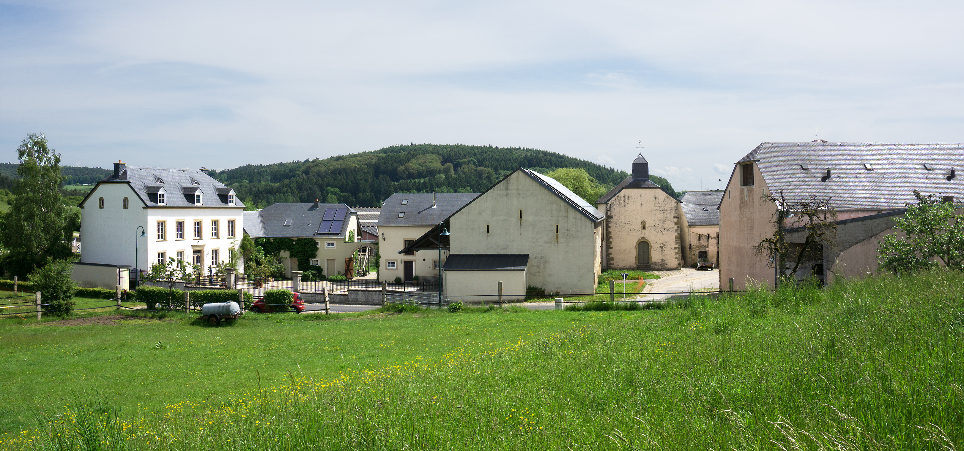 Panorama of Weyer, Luxembourg